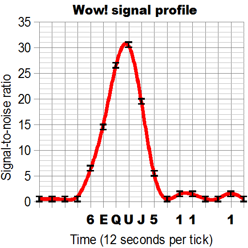 Plot of Wow! signal strength vs time